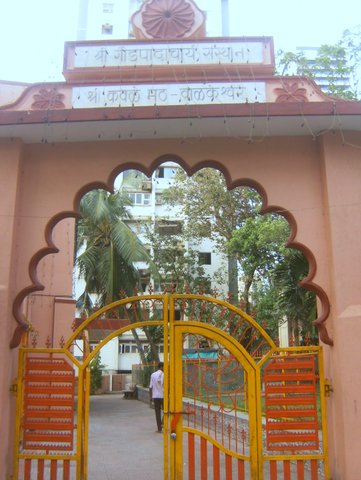 ಕಾವ್ಲೆ ಮಠ, (ಗೌಡಪಾದಾಚಾರ್ಯ ಮಠ)